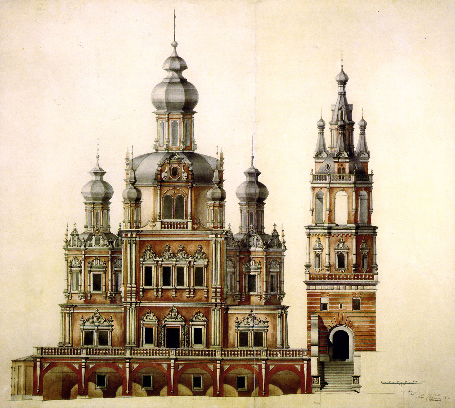 Church of the Dormition of the Theotokos in Pokrovka. Survey performed shortly before the demolition.